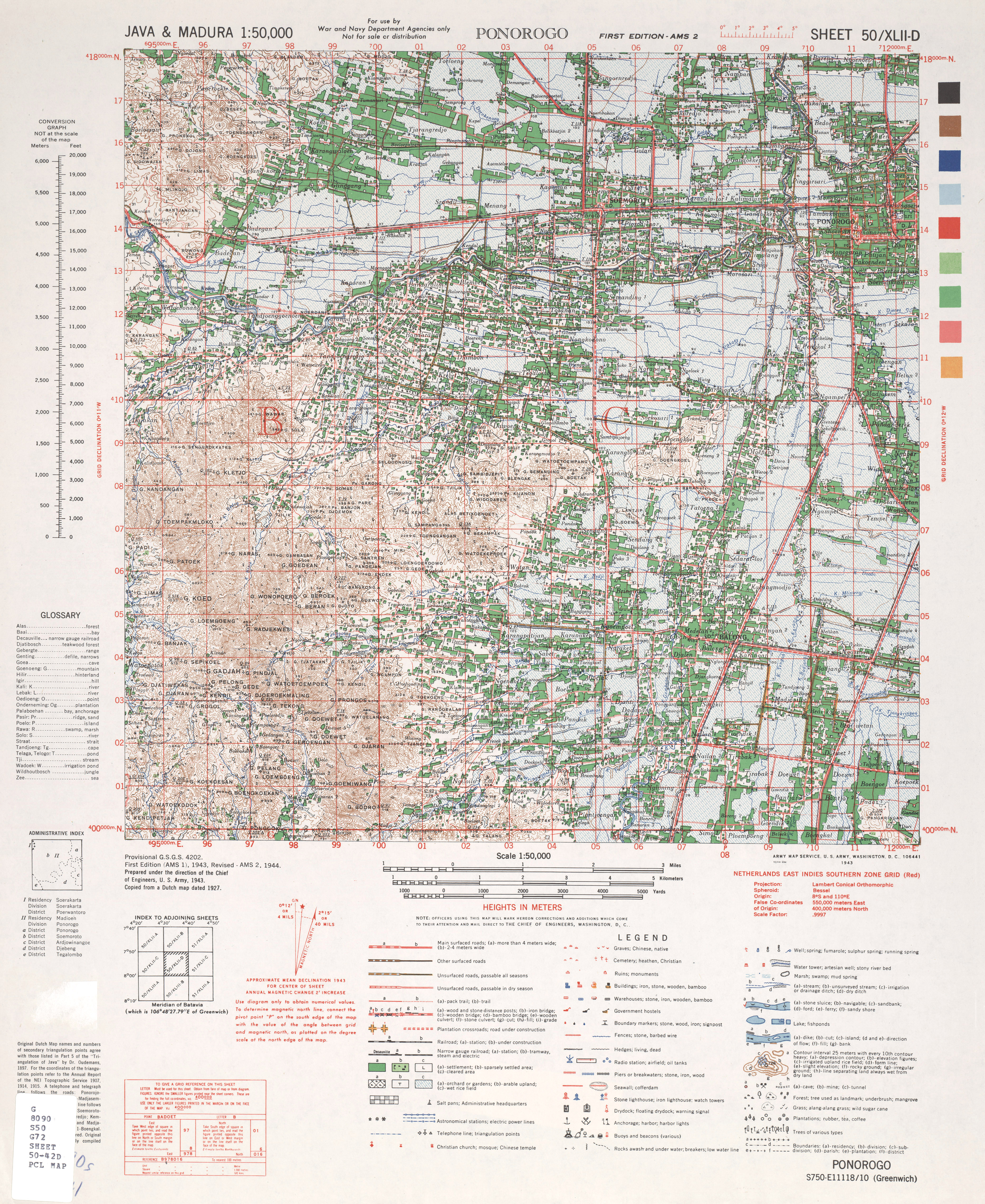 An old map, which shows the railway line Ponorogo-Badegan.